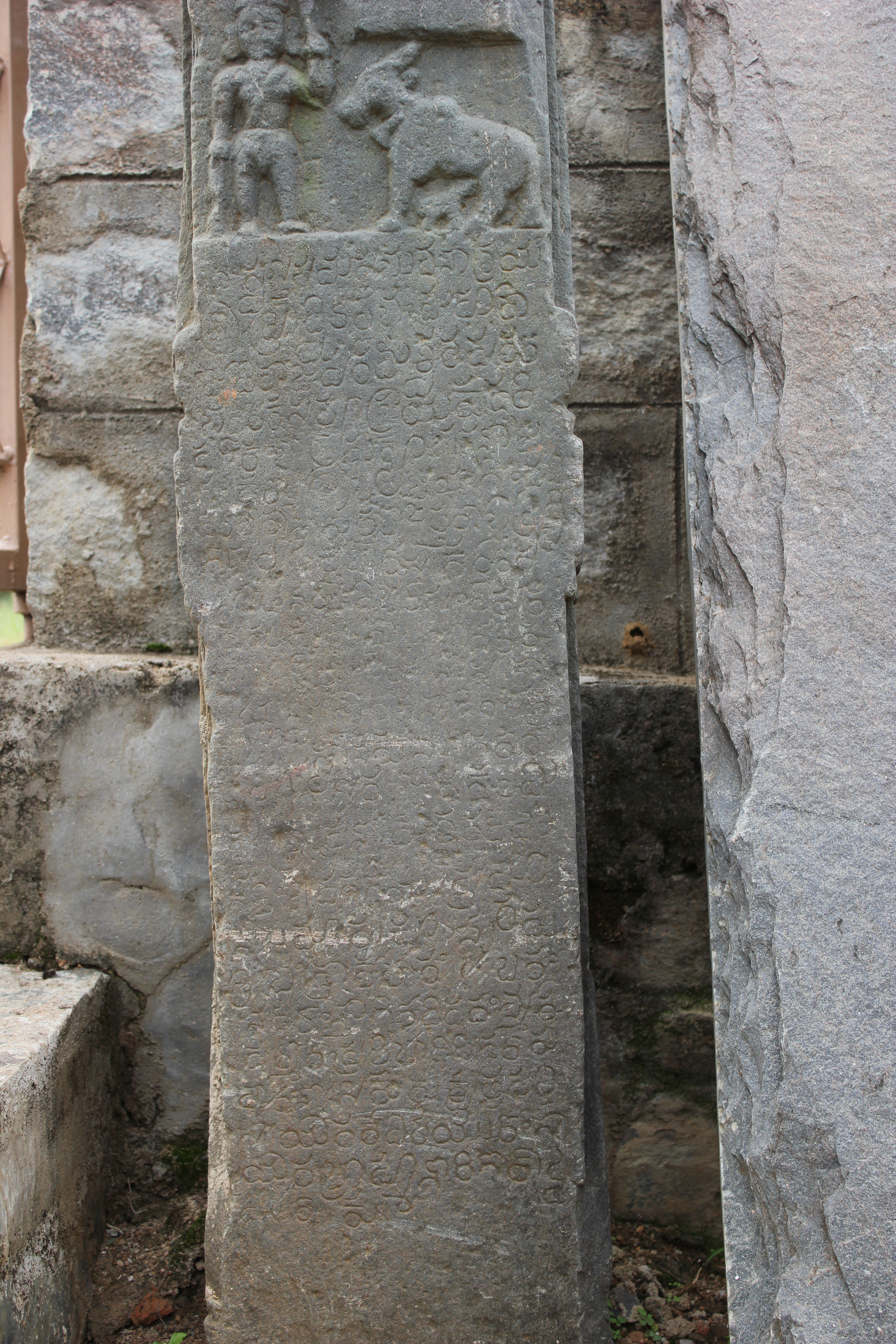 This photograph of a Herostone (virgal) with old Kannada inscription (1028 A.D. ie, Saka 950) from the rule of Western (Kalyani) Chalukya King Jayasimha II was taken by me at the Praneshvara temple (also spelt Praneshwara or Pranesvara) in Talagunda in the Shimoga district of Karnataka state, India. Source: Mysore inscriptions, pg.201, Benjamin Lewis Rice, Director of Public Instruction, Mysore and Coorg, Printed at Mysore Government Press, Bangalore, 1879; Pâli, Sanskṛit and Old Canarese inscriptions from the Bombay Presidency and parts of the Madras Presidency and Maisûr, John Faithful Fleet, James Burgess, Archæological Survey of Western India, Chapter:Analysis of inscriptions, pg. 26, #215, 1878